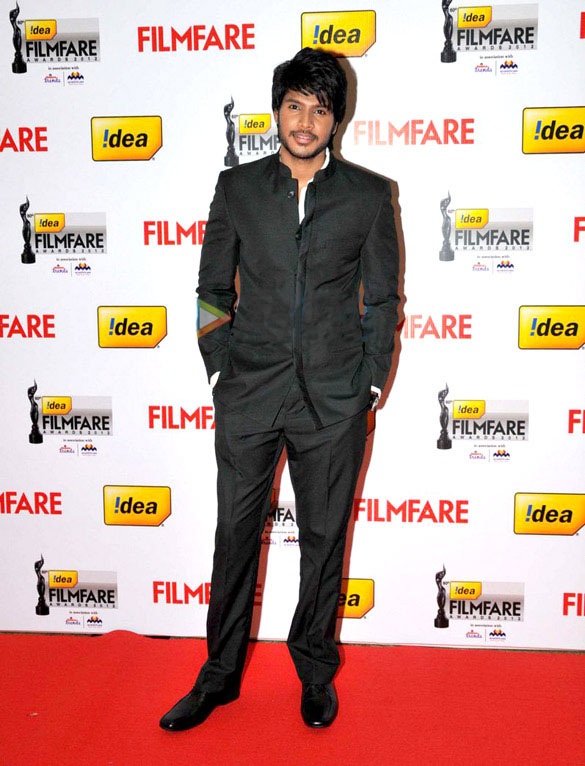 Sundeep Kishan at 60th South Filmfare Awards 2013